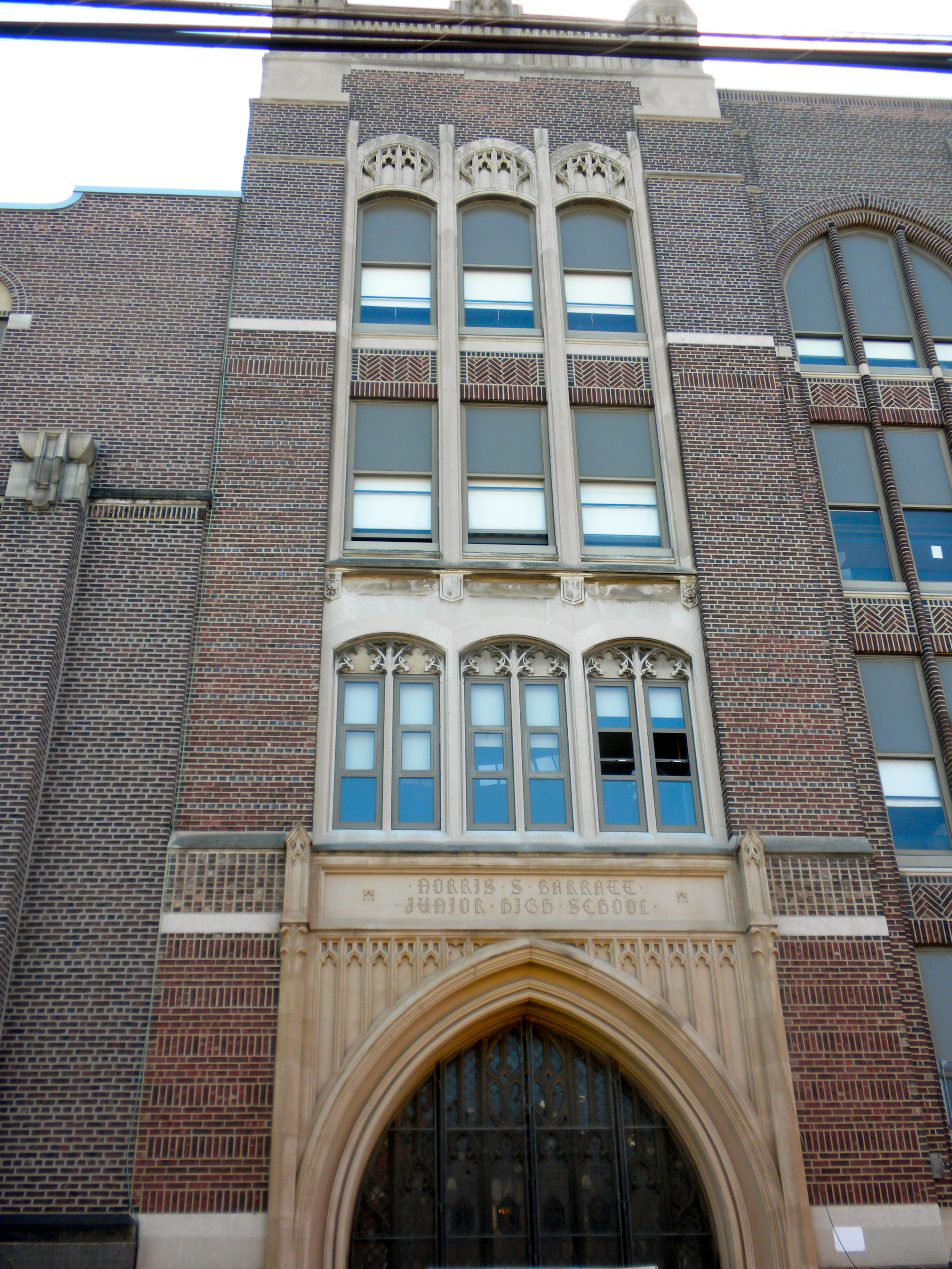 G.W. Childs Elementary School, formerly known as the Jeremiah Nichols School and Barratt School, on the NRHP since November 18, 1988. At 1599 Wharton Street in the Point Breeze neighborhood of south Philadelphia, PA.